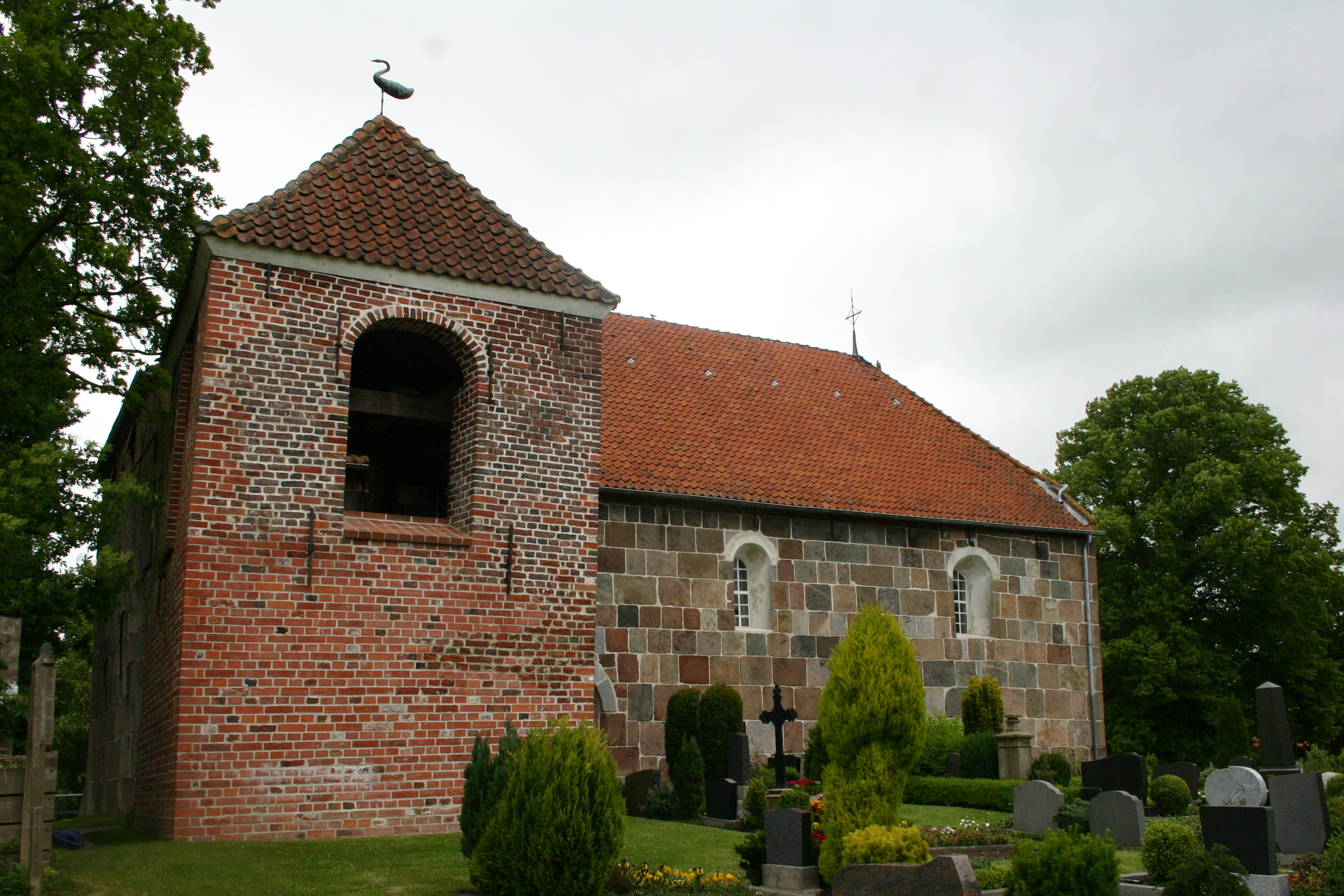 Historic Saint Dionysius Church in Asel, district of Wittmund, East Frisia, Germany